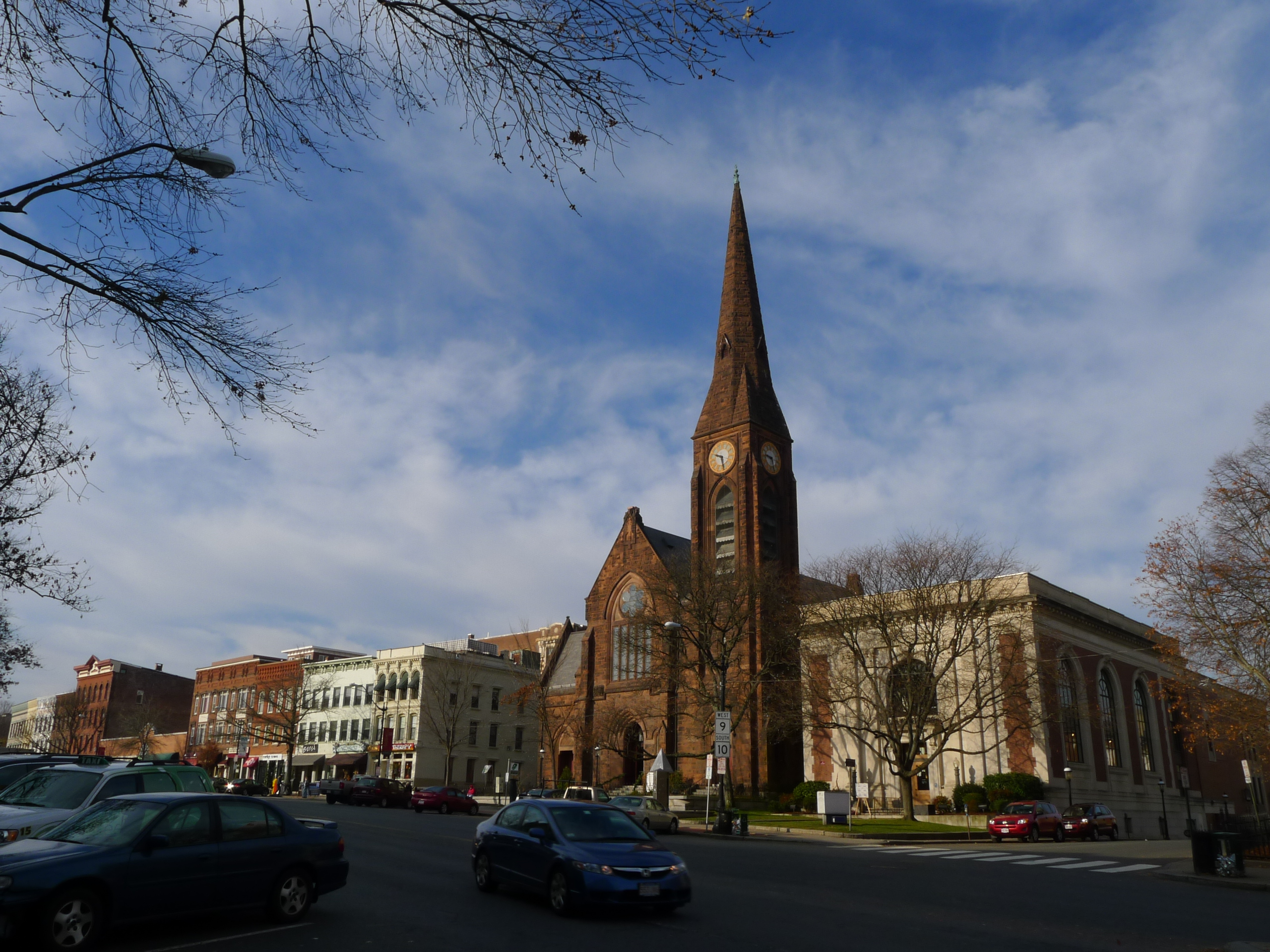 First Church, Main Street, Northampton, 2011